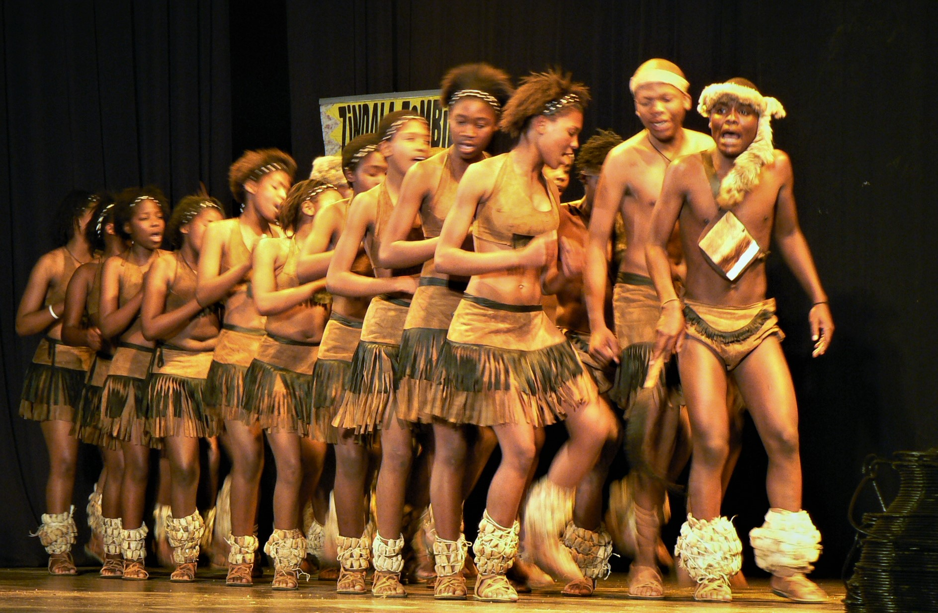 Traditional Tswana dance troupe at Zindala Zomibili Festival, Northern Cape Theatre, Kimberley, 13 September 2008 This is an image of music and dance from South Africa